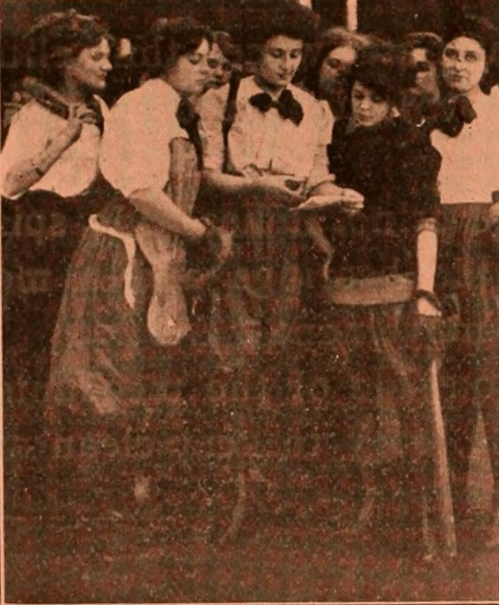 A film still from Baseball and Bloomers in the Moving Picture World. The film was released by the Thanhouser Company in 1911.